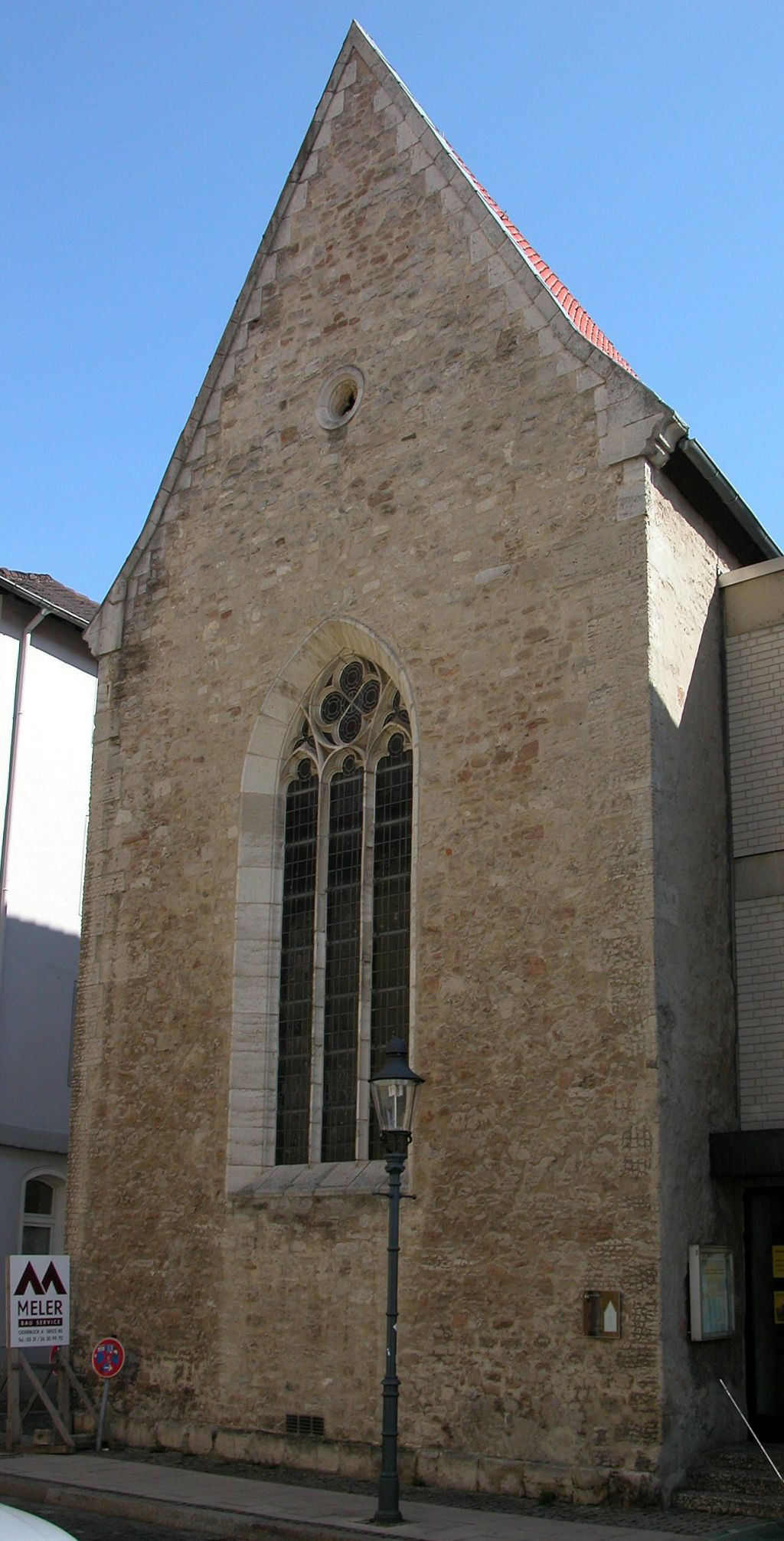 Brunswick, Germany: St. Jacob’s as seen from southwest.